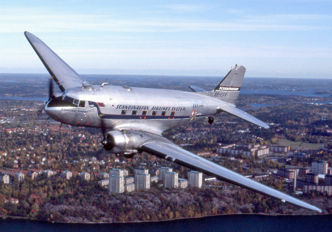 Douglas DC-3, SE-CFP, operated by non-profit organisation "Flygande Veteraner" in October 1989 above Stockholm / Sweden